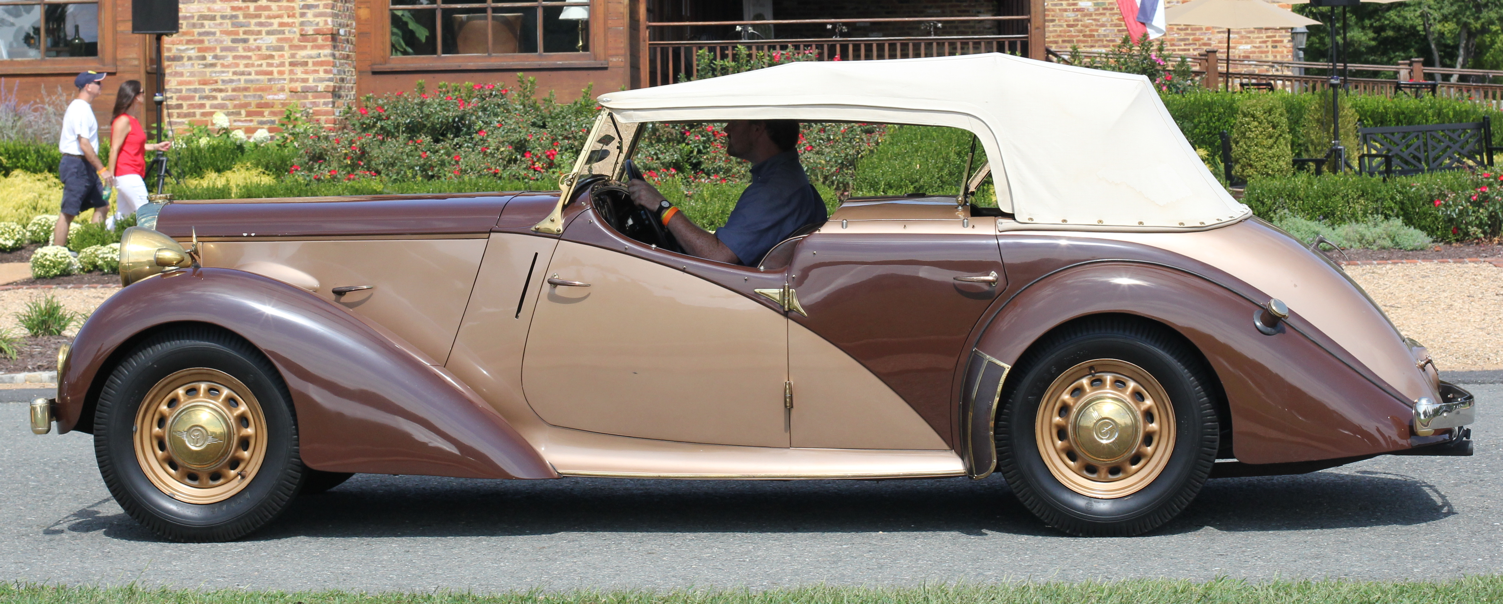 1939 Daimler Dolphin Classics on the Green, New Kent Virginia, USA. 20 September 2015